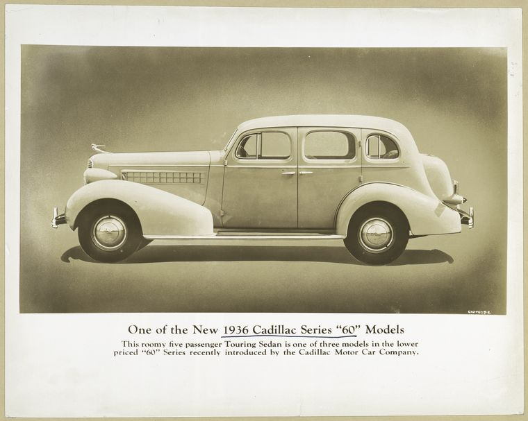 Digital ID: 482024 Notes: This roomy five passenger Touring Sedan is one of three models in the lower priced '60' series recently introduced by the Cadillac Motor Car company. Source: Photographs of General Motors and Chrysler car and truck models, 1902 - 1938. / 1902-1938. Cadillac - Chrysler - De Soto - Dodge - LaSalle - Plymouth. Photographs - Specifications. ( more info ) Repository: The New York Public Library. Science, Industry and Business Library. General Collection Division. See more information about this image and others at NYPL Digital Gallery . Persistent URL: Rights Info: No known copyright restrictions; may be subject to third party rights (for more information, click here )